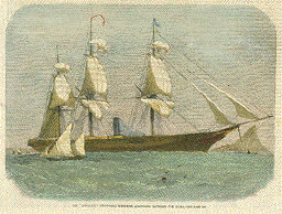 UK troopship HMS Himalaya circa 1860